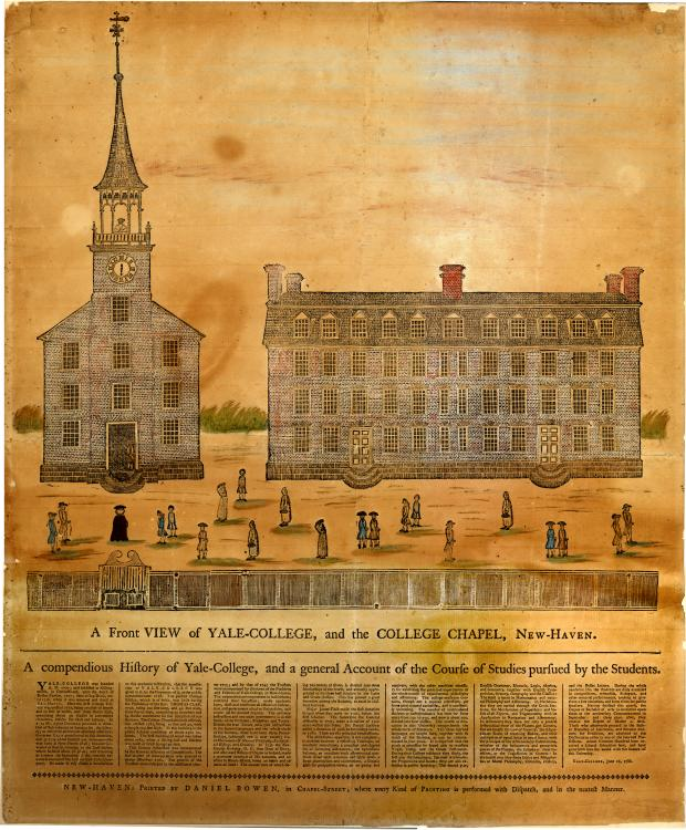 "A Front View of Yale-College, and the College Chapel, New-Haven, printed by Daniel Bowen from a woodcut." In the lithograph, Yale students near President Ezra Stiles are seen removing their hats, a Yale custom of the era. The building known as Yale College was built in 1717 and demolished in 1782. The 'College Chapel,' originally known as 'First Chapel, was built between 1761 and 1763. From 1824 until its demolition in 1893 it was known as The Athenaeum.